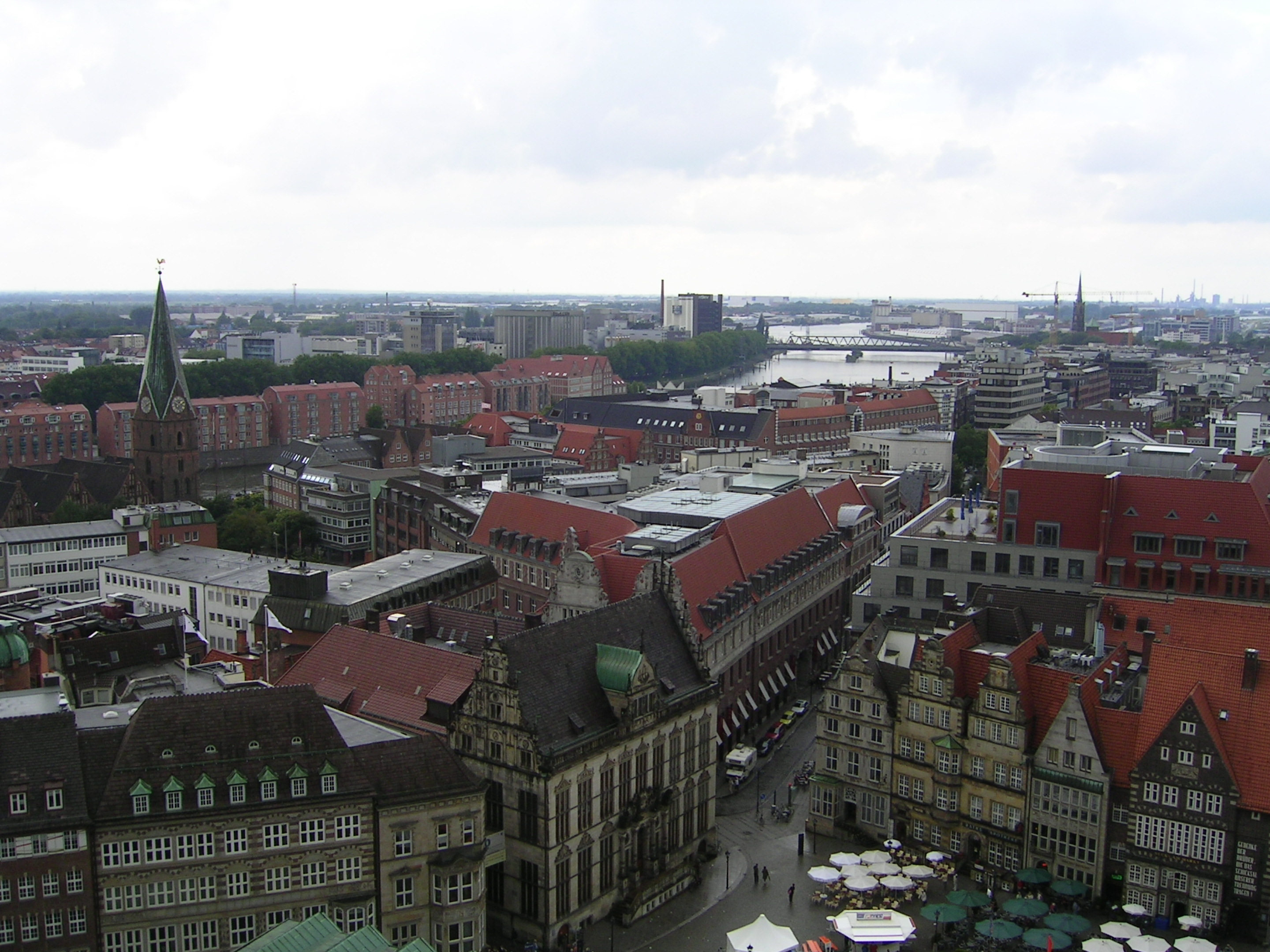 Bremen aerial view User:Tarawneh/rami